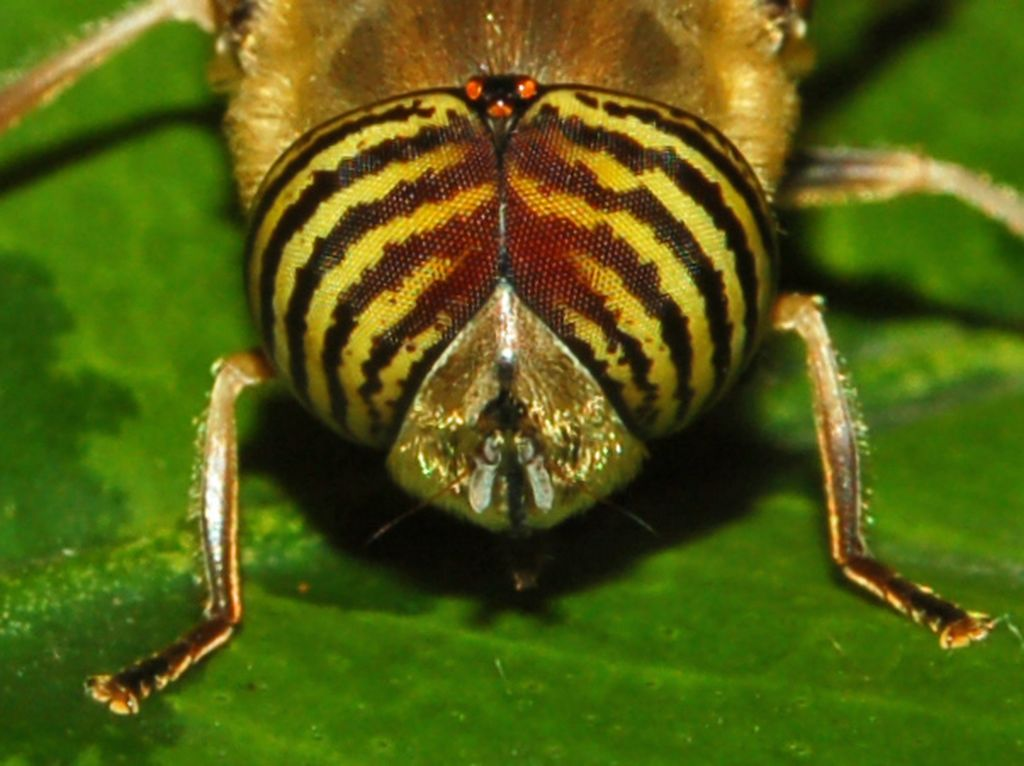 E. taeniops